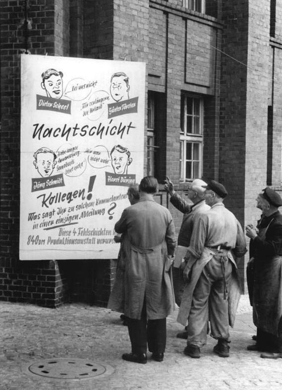 Sign at a factory entrance denunciating the absence of 4 employees at the night shift. The named speech balloons tell their excuses. An overall loss of profits of 840 Mark is stated.